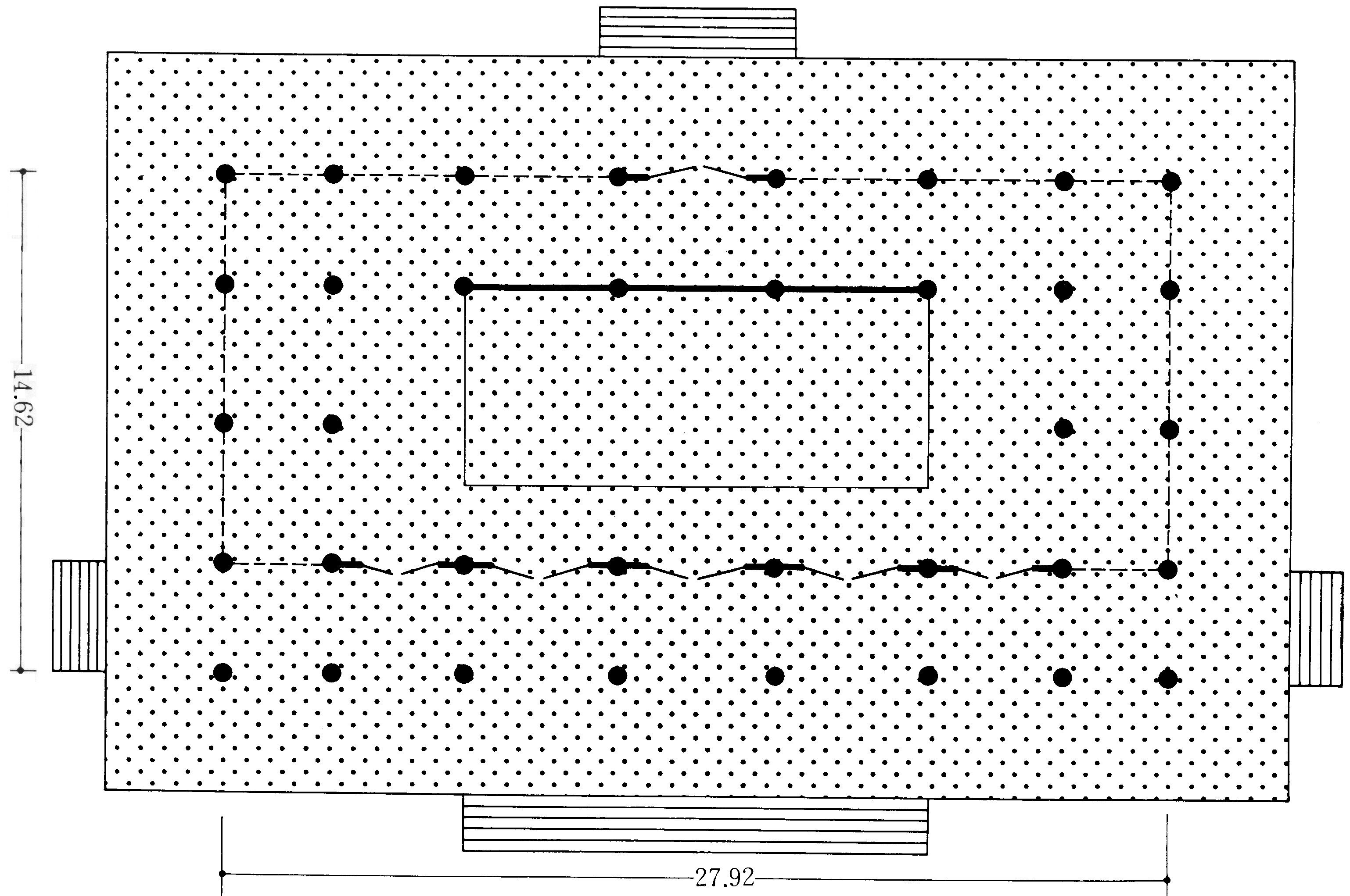 Layout of Tōshōdaiji Kōndō at Nara, Japan